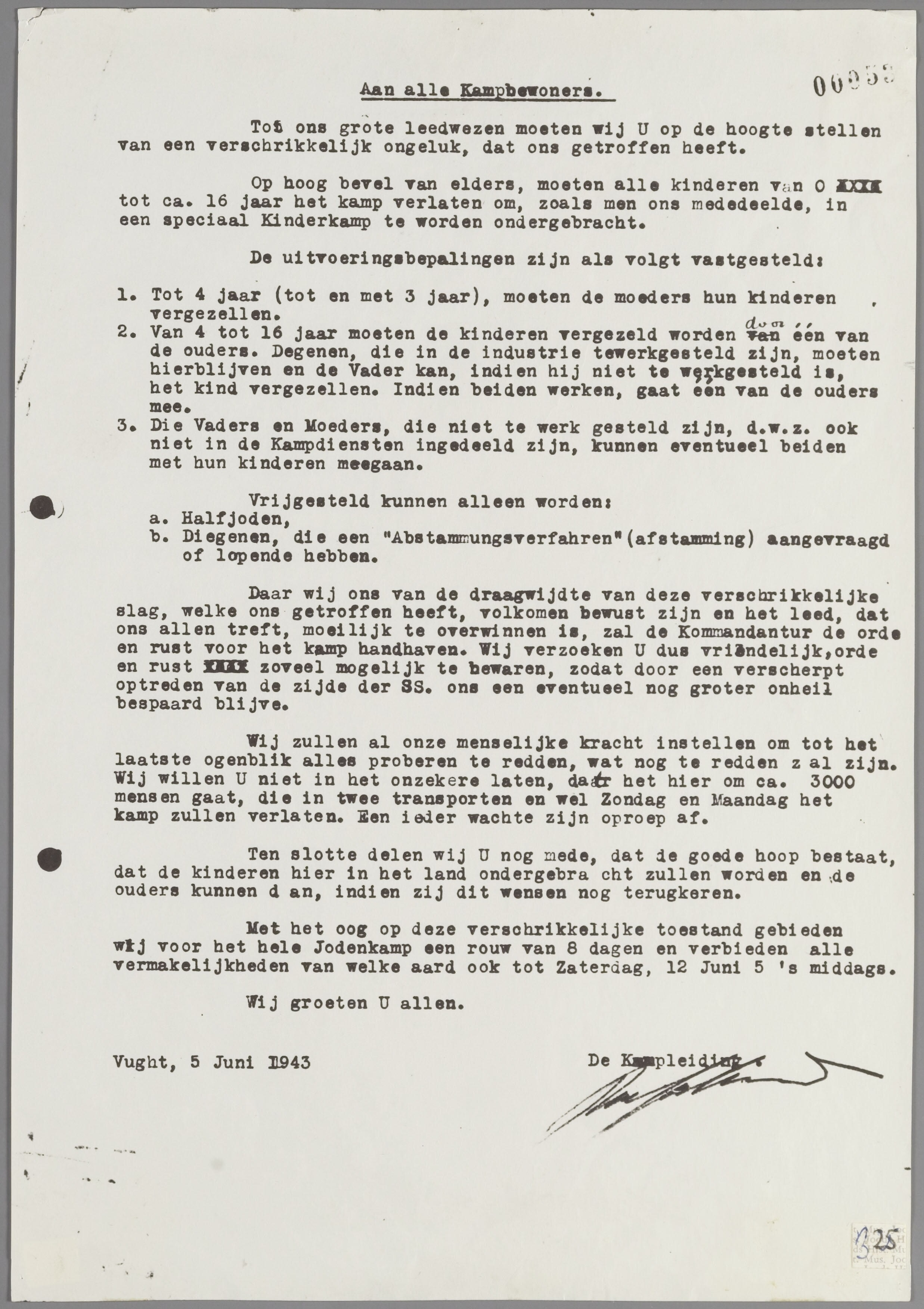 Proclamation of the children transport.